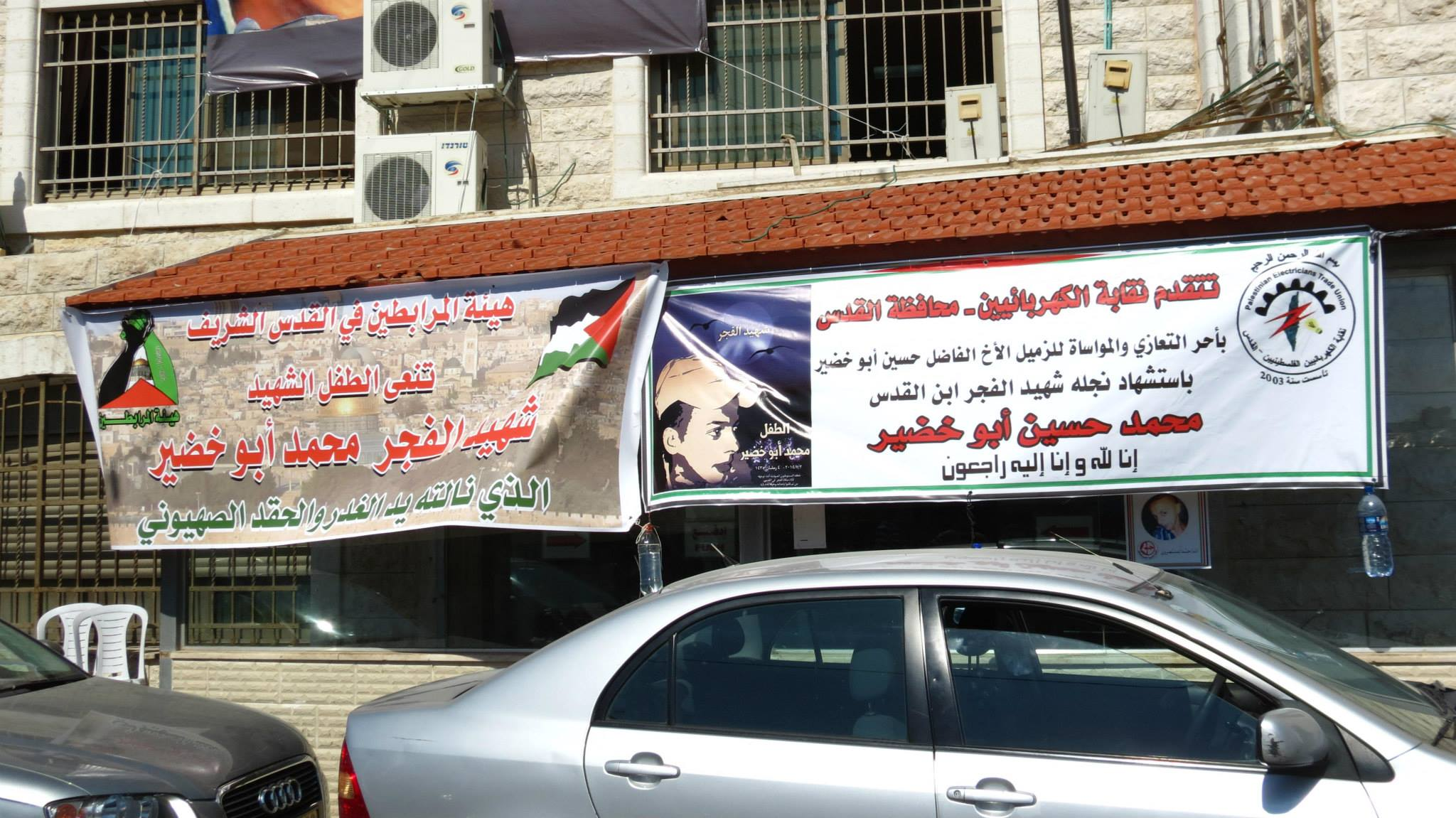 Muhamed Abu Khdeir posters in east Jerusalem